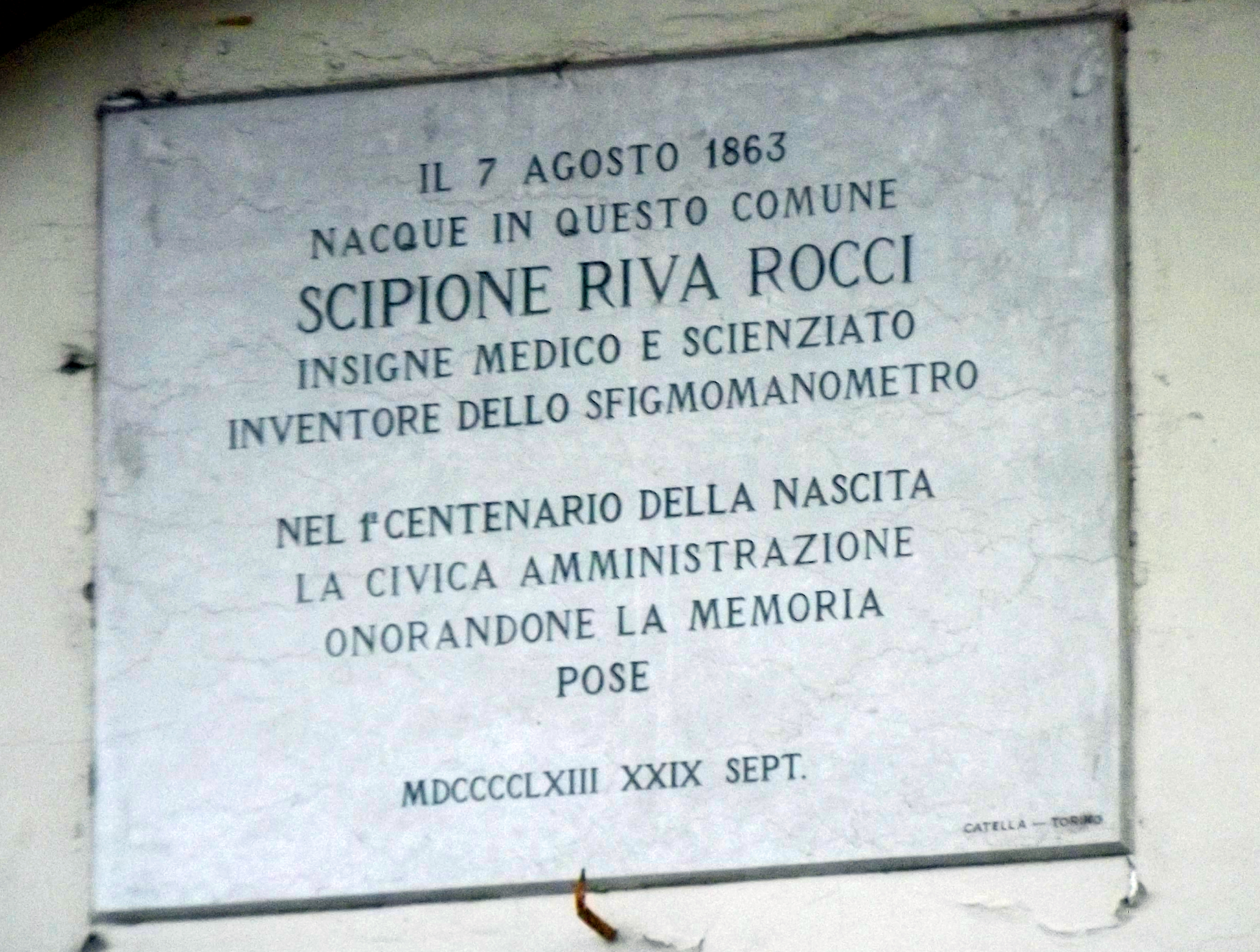 Almese (TO, Italy): Scipione Riva Rocci memorial tablet on the local town hall